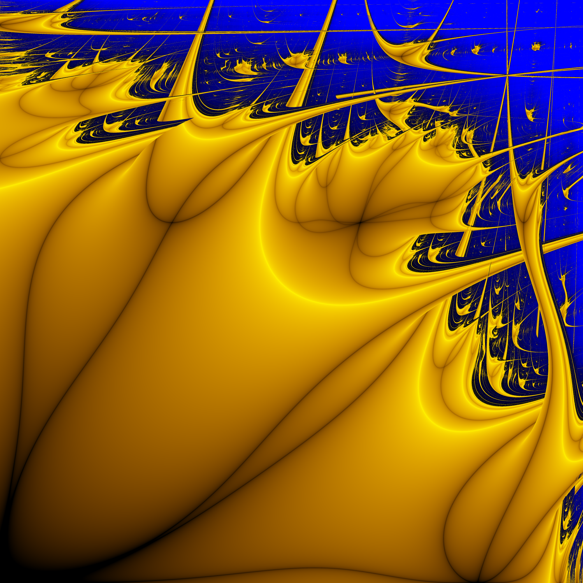 Lyapunov fractal for the sequence AABAB, a and b in [2,4], a as y-coordinate and b as x-coordinate. Downsampled from a 6000x6000 image.